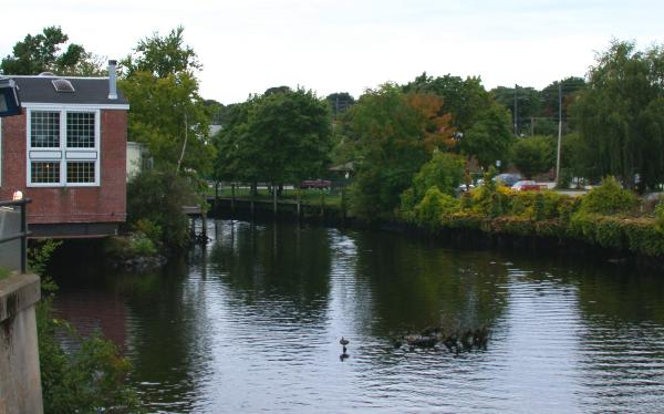 Pawcatuck River as it flows through Westerly (left) and Pawcatuck. © 2004 Matthew Trump